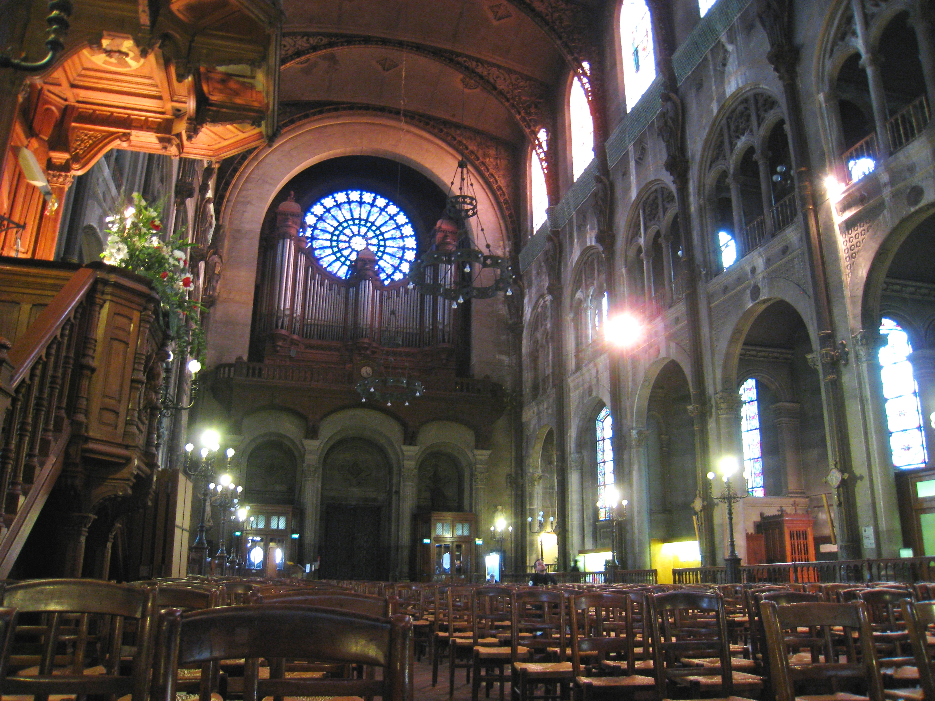 Église Saint-Augustin de Paris, Paris, France - dome. The original work is old enough so that copyright (if any) has long since expired; thus this image is free of copyright restrictions.